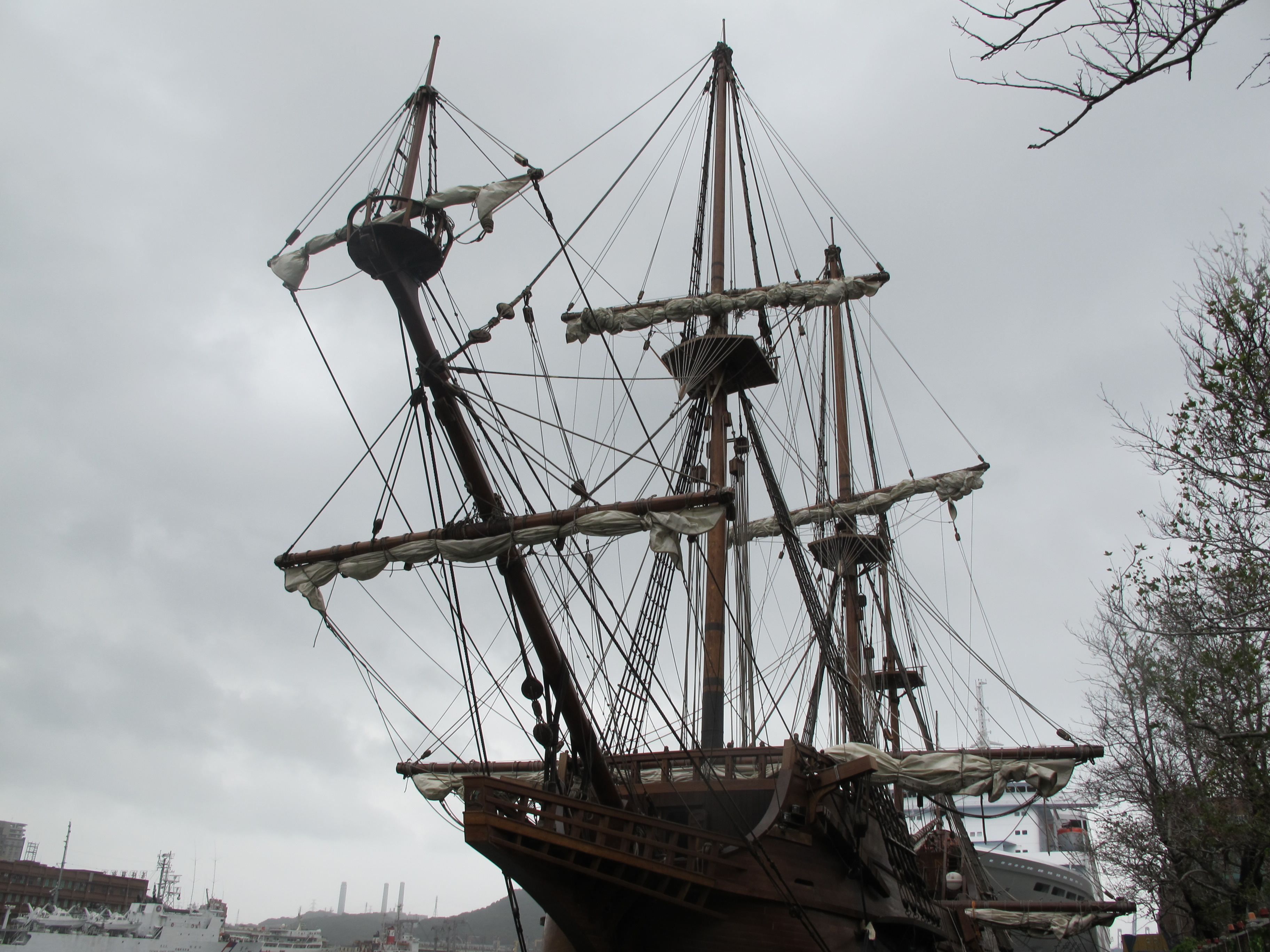 Galeón Andalucía in the Port of Keelung, Taiwan.